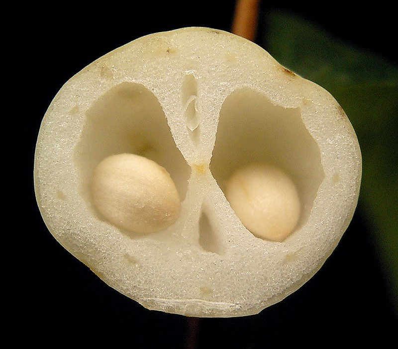 Symphoricarpos albus